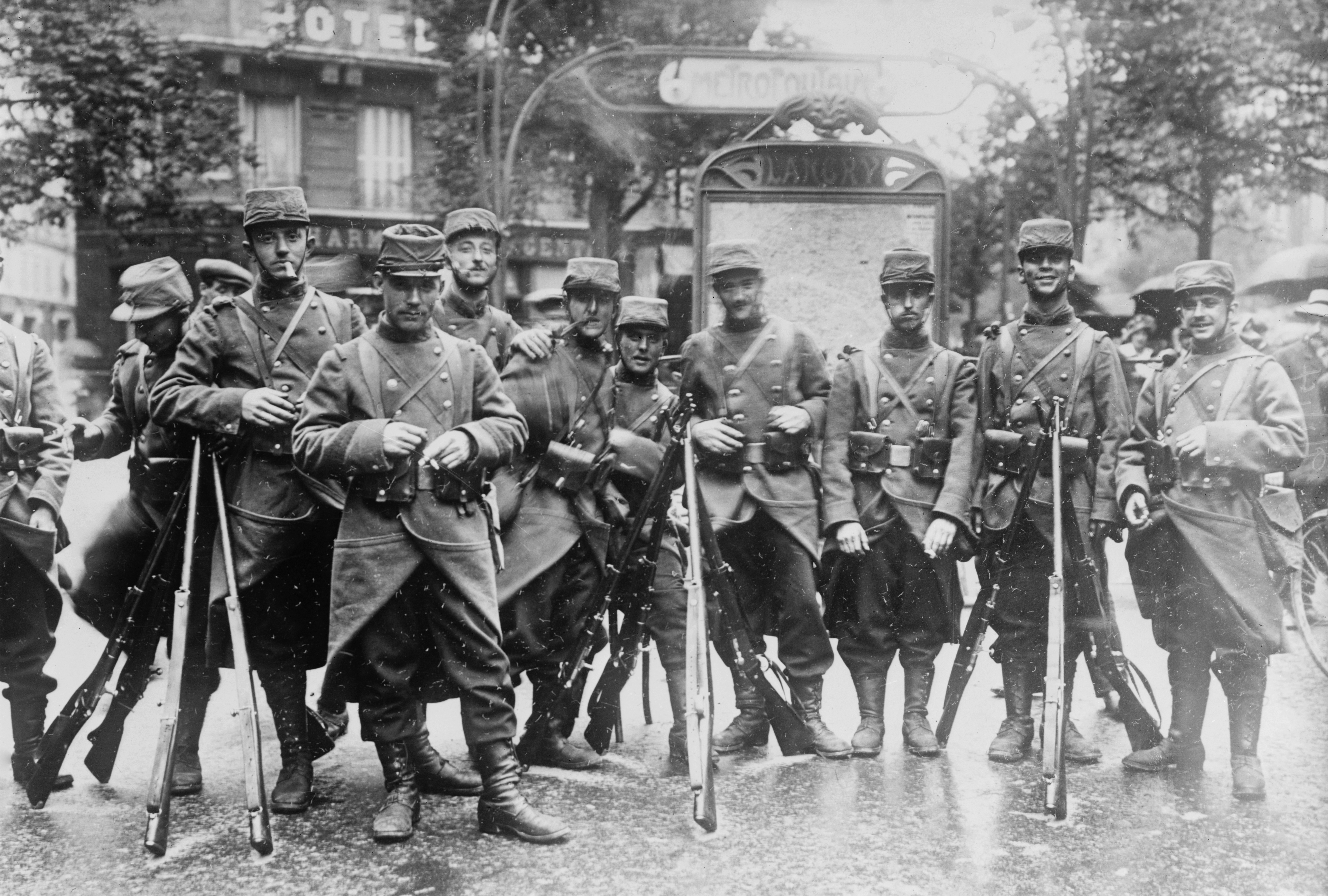 Guarding subway entrance, Paris Photograph shows French soldiers guarding a subway entrance in Paris, France at the beginning of World War I.